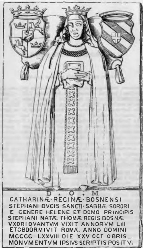 The oldest known reproduction of the image on Queen Catherine's tombstone